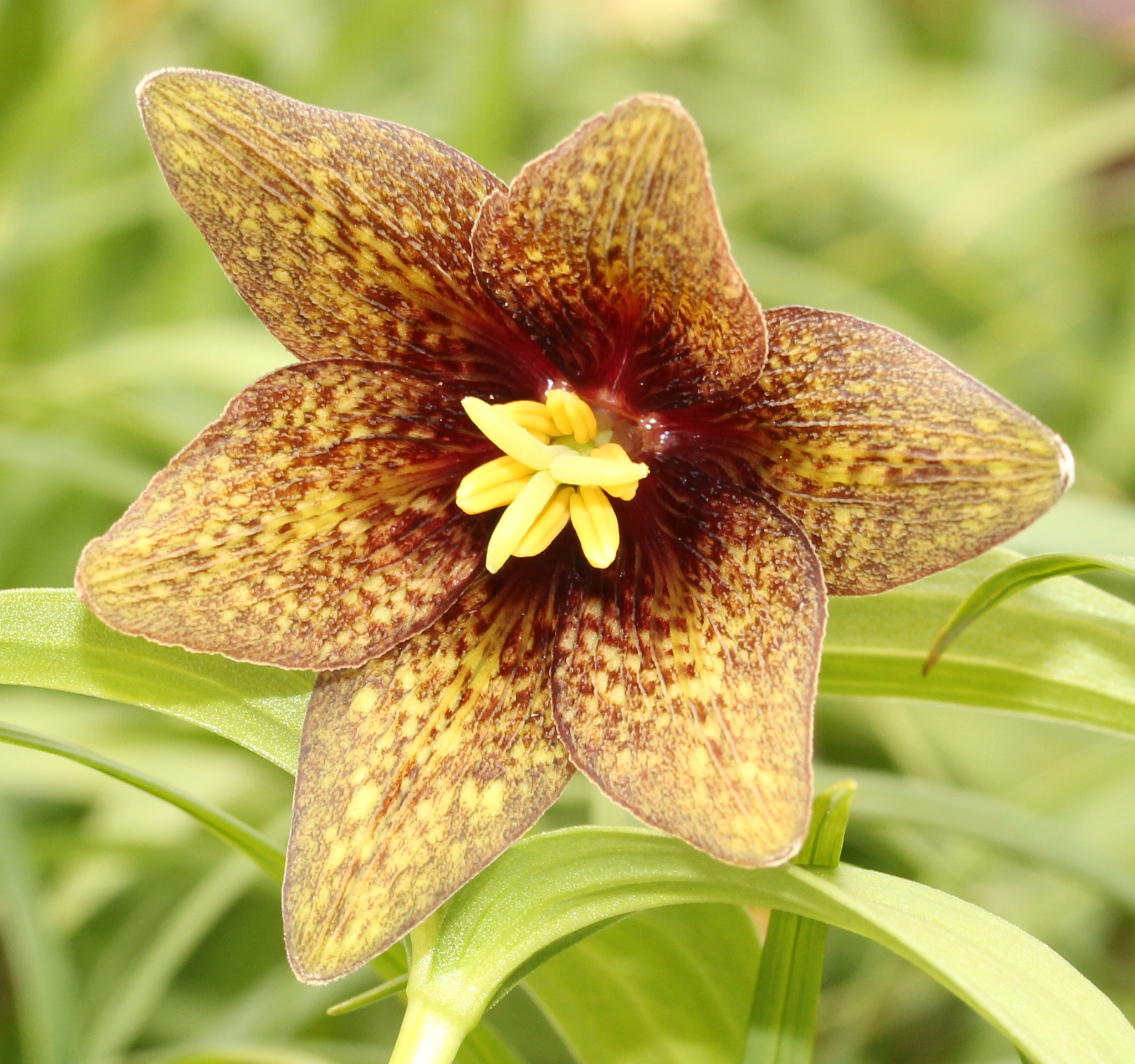 Fritillaria camtschatcensis (L.) Ker Gawl. var. keisukei , in Mount Norikura, Takatama, Gifu pref., Japan.